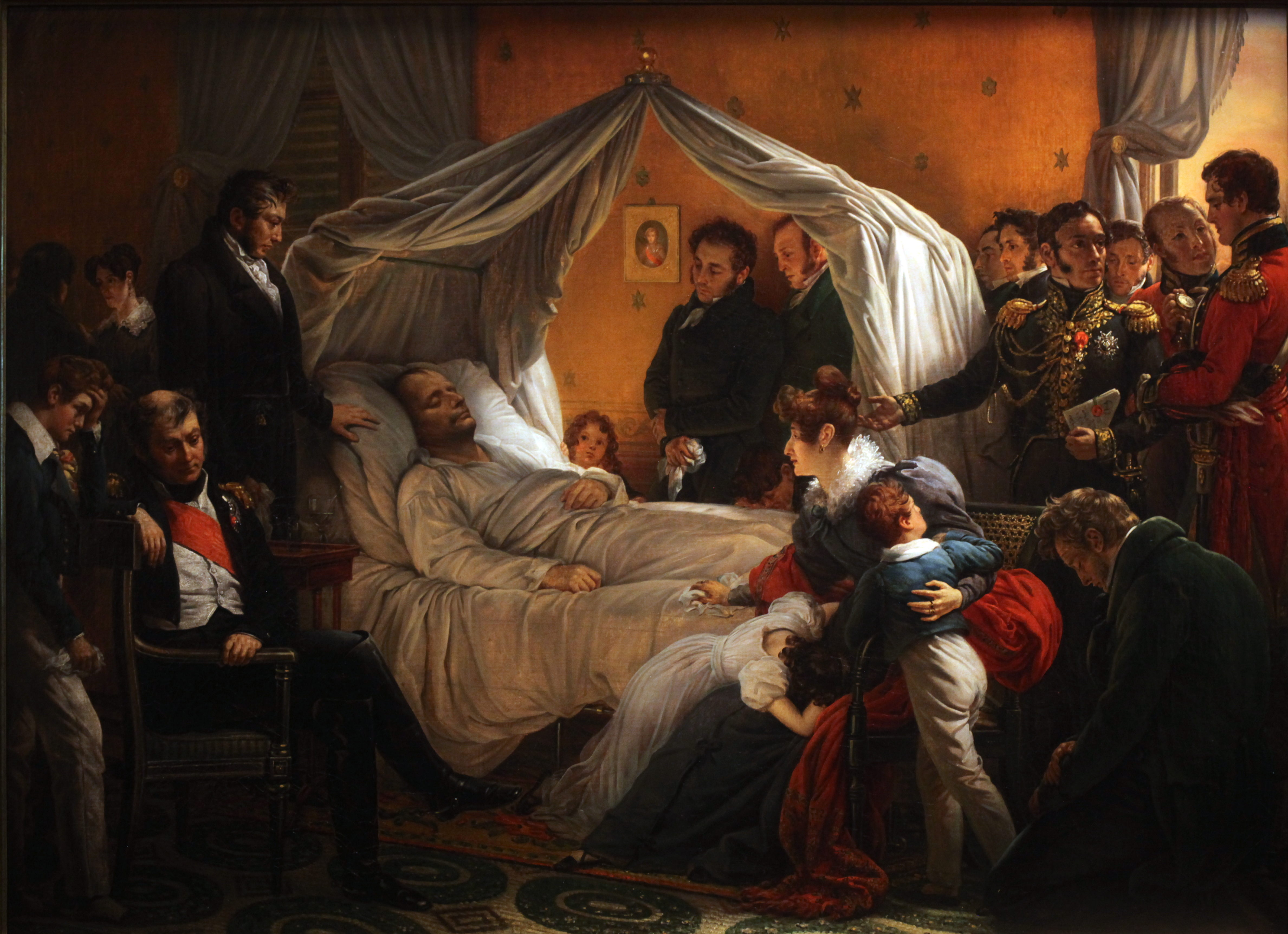 Painting commissioned by Colonel de Chambure and exposed in 1829. Stendhal wrote a positive review of the painting.